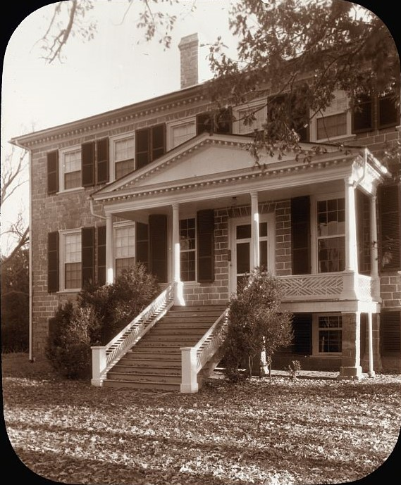 Title [Prestwould, Clarksville vicinity, Mecklenburg County, Virginia. Pedimented entrance] Contributor Names Johnston, Frances Benjamin, 1864-1952, photographer Created / Published [1935] Subject Headings - Houses--Virginia--Mecklenburg County--1930-1940 - Porches--Virginia--Mecklenburg County--1930-1940 - Stairways--Virginia--Mecklenburg County--1930-1940 Format Headings Lantern slides--1930-1940. Notes - Site History. House architecture: Built by 1797, home of Sir Peyton Skipwith. Today: Historic house and gardens open to the public. - On slide (handwritten): "Prestwould, Clarksville, Mecklenburg." - Slide for lecturing on "Tales Old Houses Tell." - Title and date based on same image in the Carnegie Survey of the Architecture of the South, LC-J7-VA-2144, with additional information from Sam Watters, 2011. - Forms part of: Garden and historic house lecture series in the Frances Benjamin Johnston Collection (Library of Congress). - Formerly in Box 29. Medium 1 photograph : glass lantern slide, sepia-toned ; 3.25 x 4 in. Call Number/Physical Location LC-J717-X106- 30 [P&P] Repository Library of Congress Prints and Photographs Division Washington, D.C. 20540 USA Digital Id ppmsca 16600 //hdl.loc.gov/loc.pnp/ppmsca.16600 Library of Congress Control Number 2008675900 Reproduction Number LC-DIG-ppmsca-16600 (digital file from original item) Rights Advisory No known restrictions on publication. Online Format image Description 1 photograph : glass lantern slide, sepia-toned ; 3.25 x 4 in. LCCN Permalink